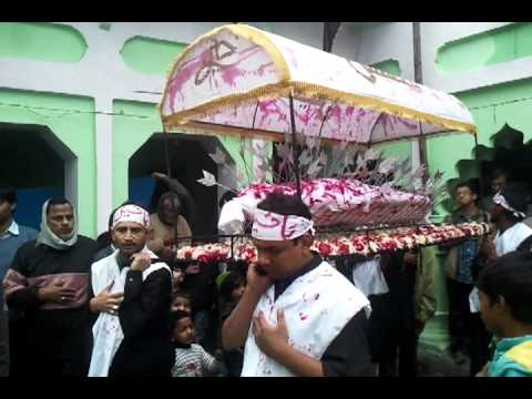 Shabih-e-Taboot-e-Imam-e-Hussain(a.s.) Tilgadiya Buzurg